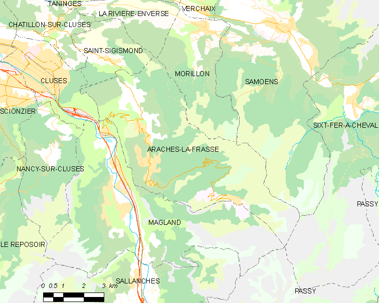 Map of French municipality Arâches-la-Frasse